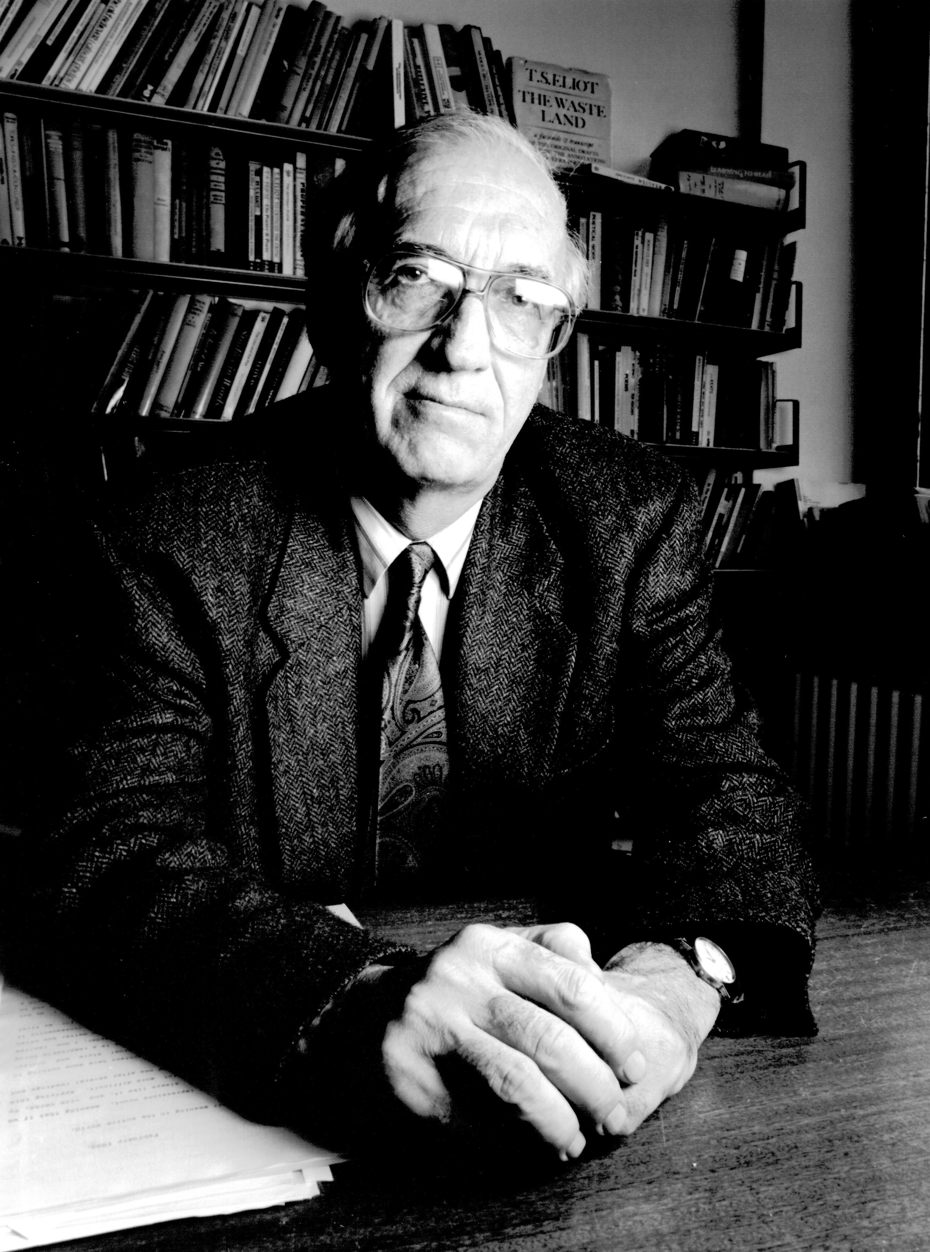 Brian Cox appearing on Opinions on 28 February 1993